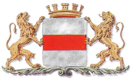 Flag of Dendermonde, Belgium